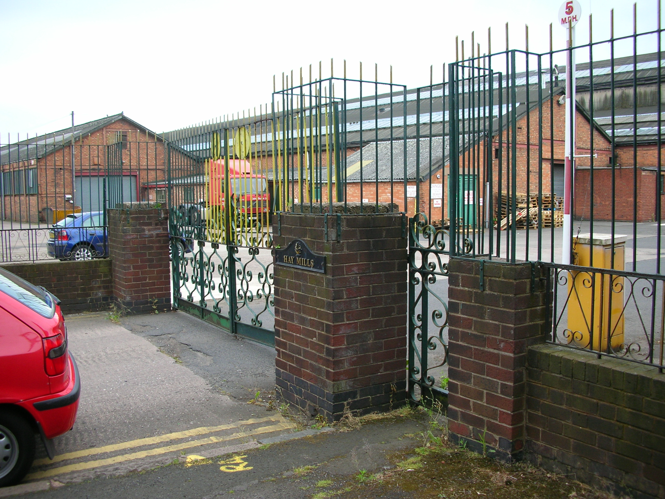 Hay Mills factory in Small Heath, Birmingham, England. Historic manufacturer of patented steel wire used for piano wire and as the armoured sheath for the first transatlantic telegraph cable, 1866. Photographed by me 18 June 2006. Oosoom